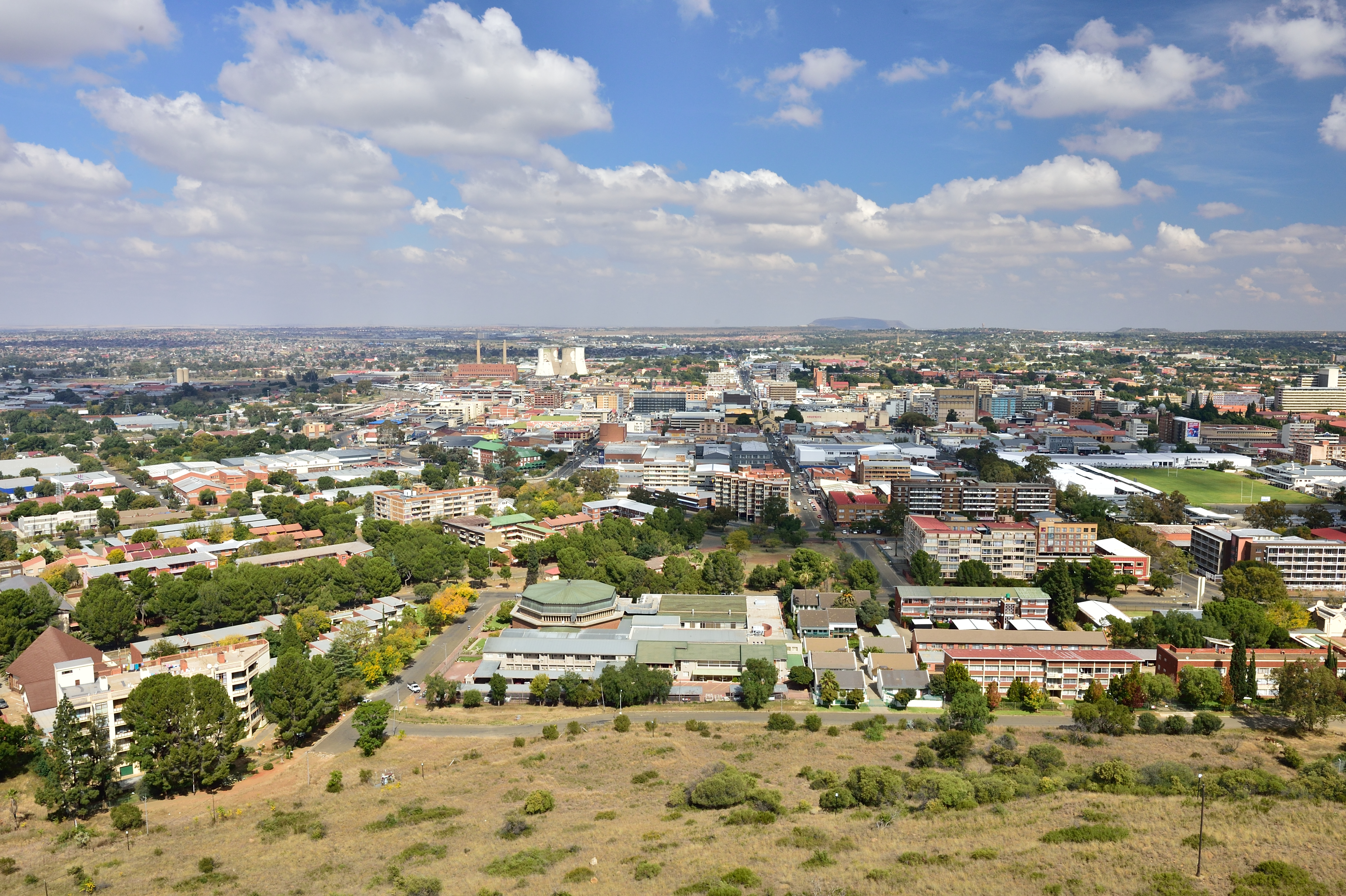 Bloemfontein, Free State, South Africa